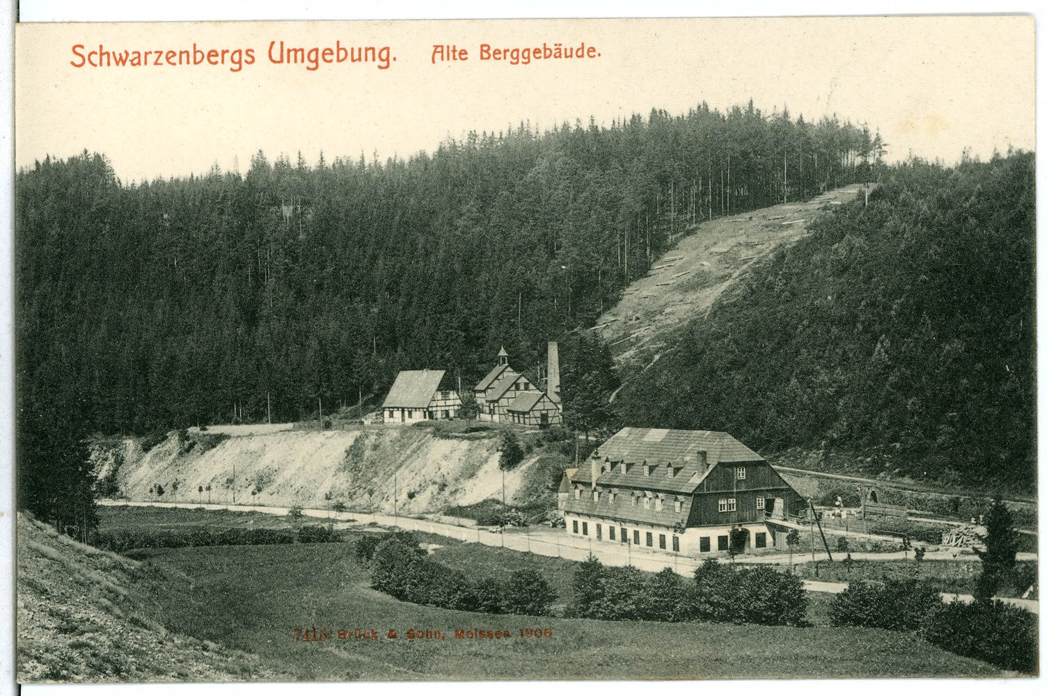 This postcard is from publisher Brück & Sohn in Meißen ( This postcard has a unique number 07415 and is available in a higher resolution at the publisher. This images was uploaded in a cooperation project between Wikipedians and the publisher.